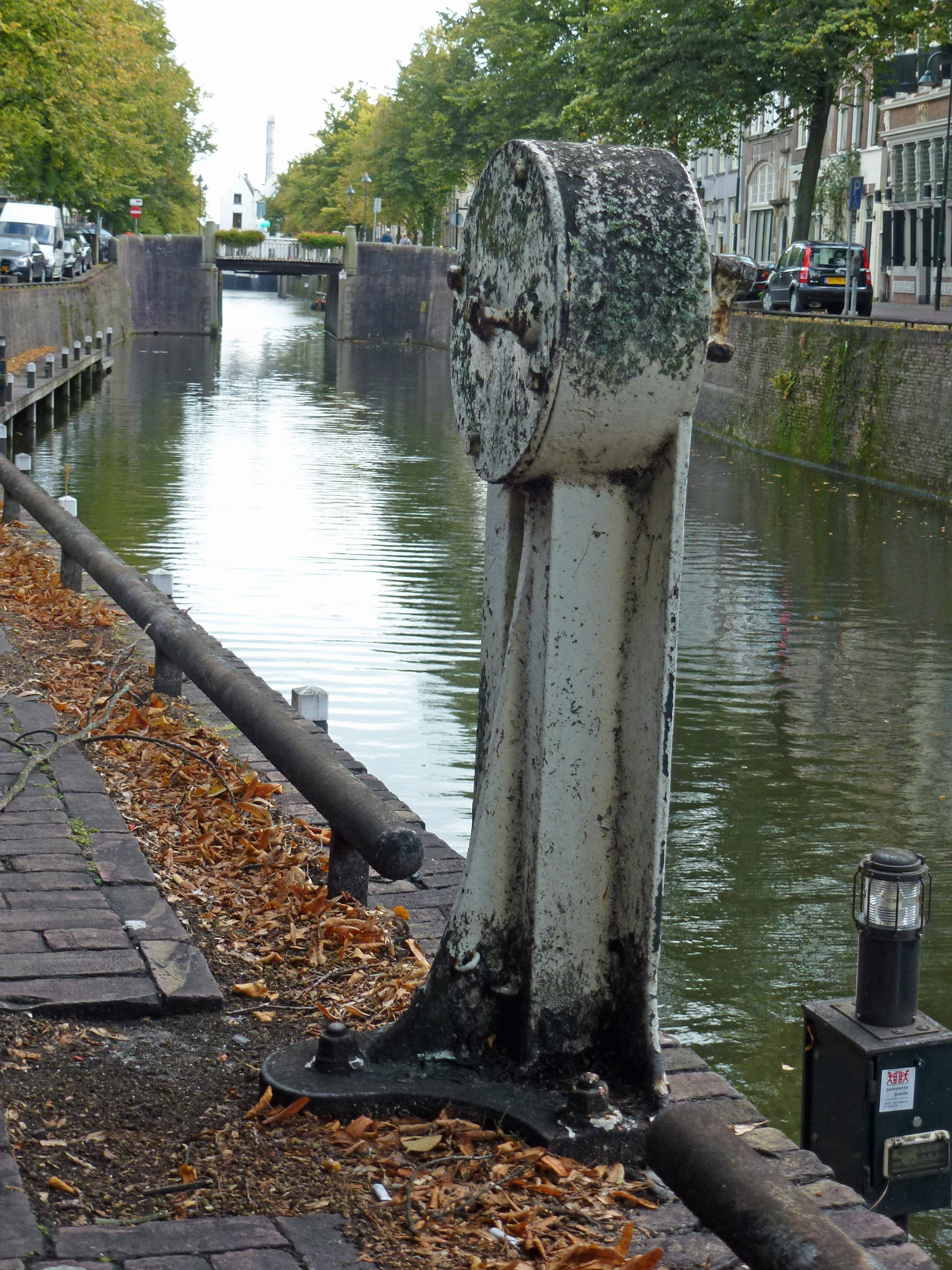 Old mechanism for cleaning the sewerpipes in Gouda NL